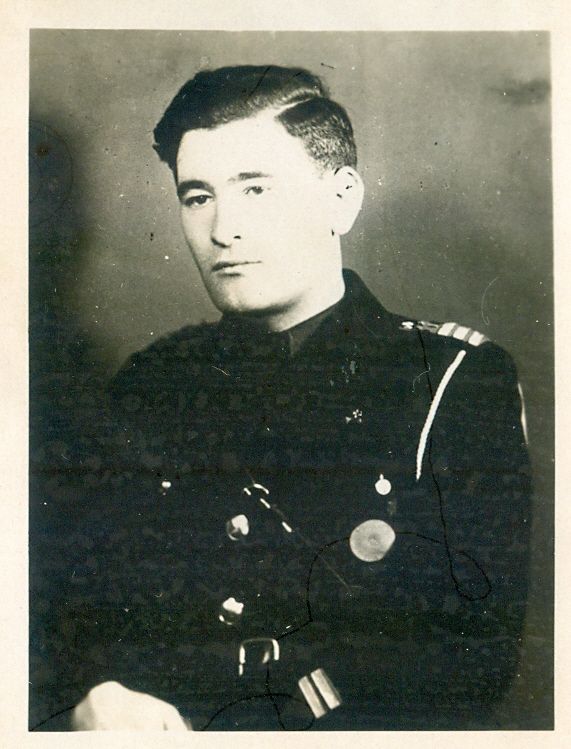 Jeoshua Zitron Halevi up to 1945